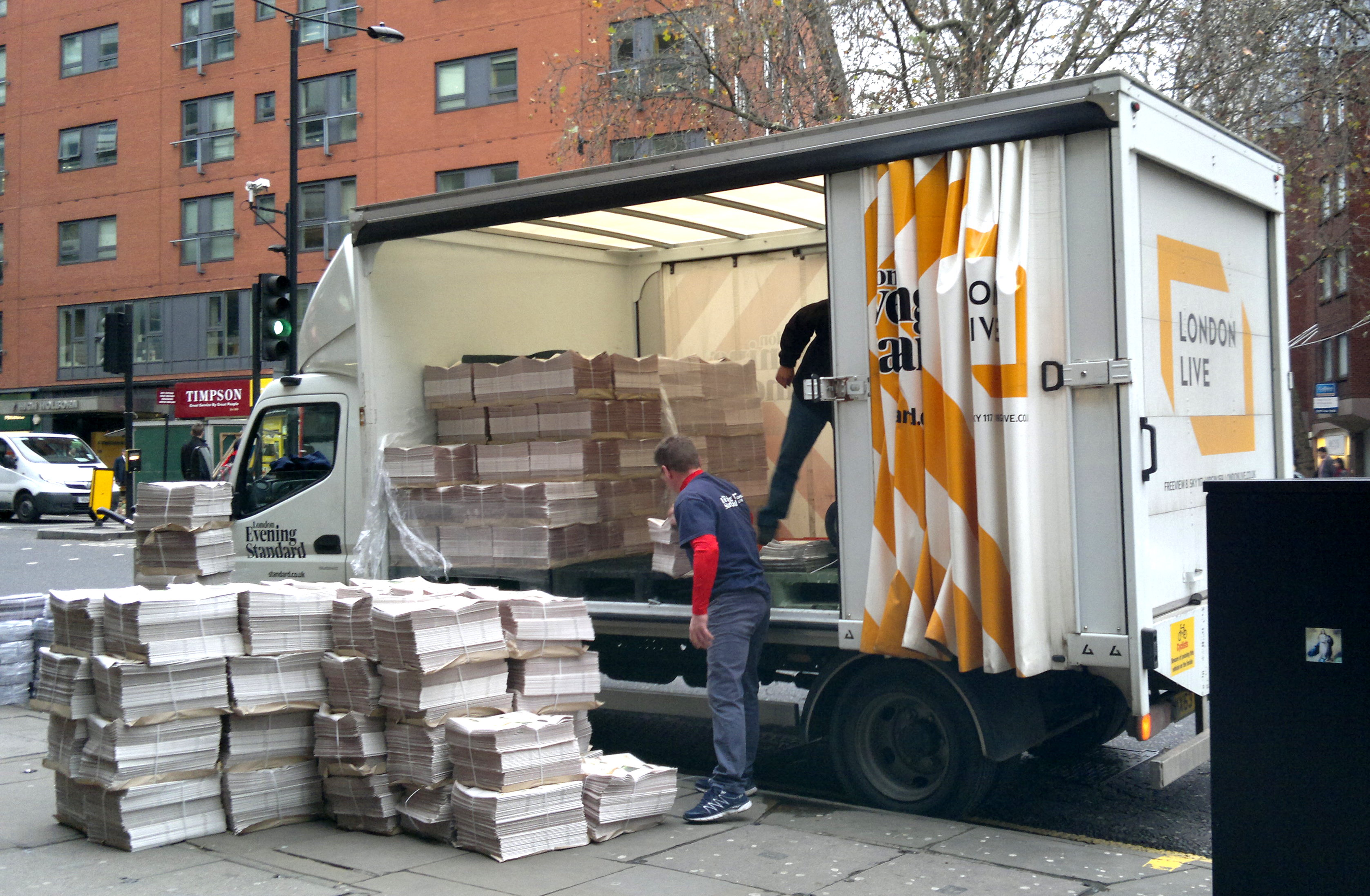 Unloading the London Evening Standard, Chancery Lane Stn, Holborn, Nov 2014.